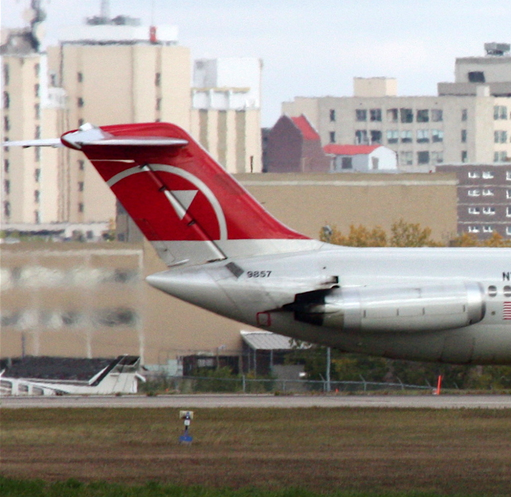 Northwest Airlines DC-9 at Regina International Airport